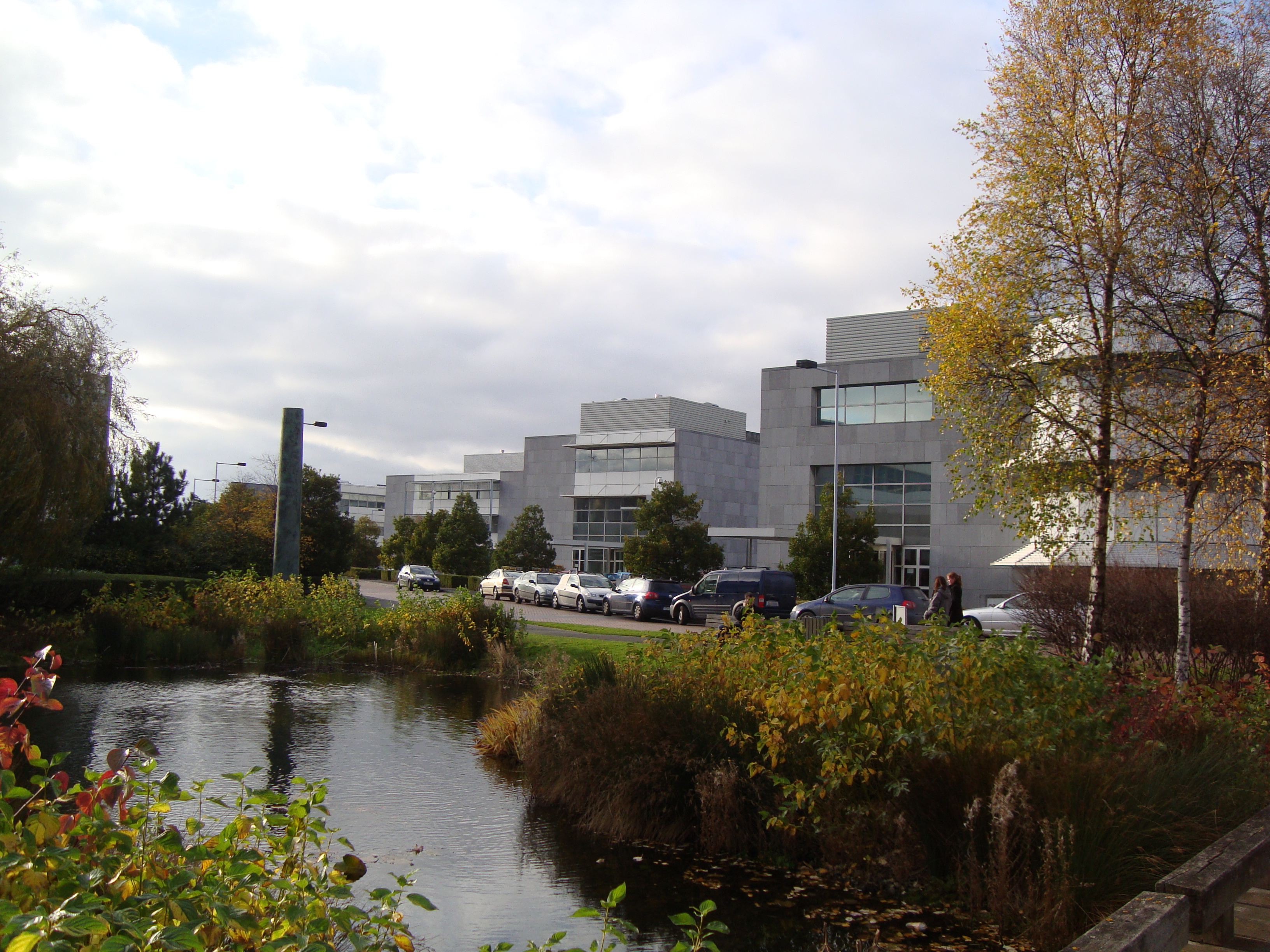 East Point Business Park (Dublin, Ireland). Photo taken showing the pond and, from right to left, Blocks I, H (both of Oracle) and G (Sun Microsystems).